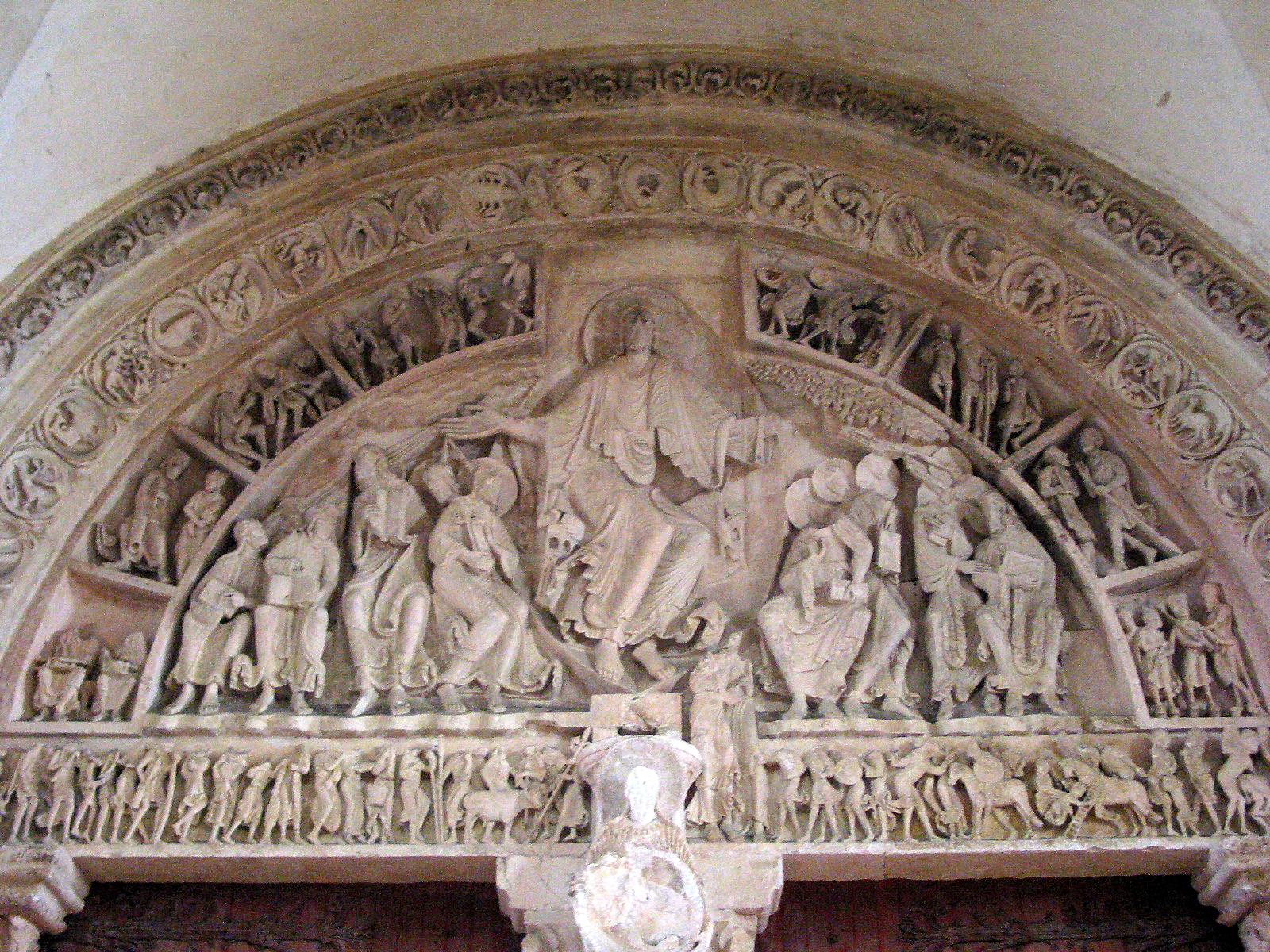 Vézelay (Yonne - France), Basilica of Saint Magdalene – Central tympan of the Saint Magdalene narthex (1140-1150).